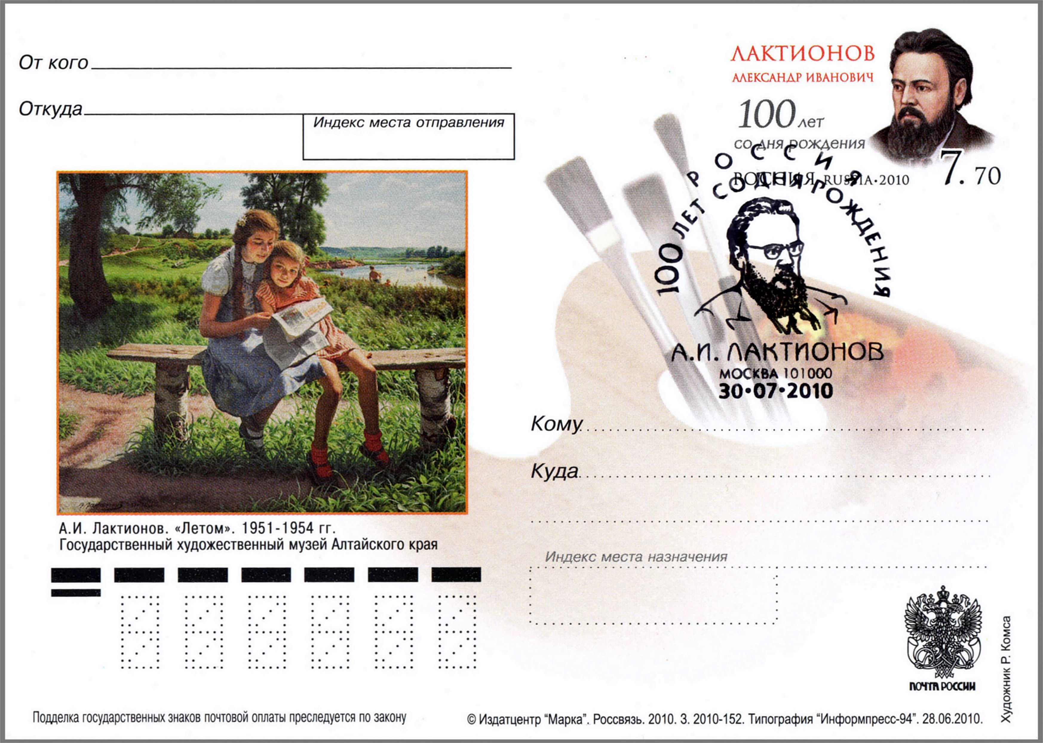 100th birth anniversary of the Soviet Russian painter Aleksandr Laktionov (1910—1972). The postal stationery card with imprinted commemorative stamp, Russia, 30 July 2010, Catalogue of PTC Marka No 212-окр/10, Michel No PSo202. Coated paper. Offset printing. Size of the postal card: 105×148 mm. Print run: 15,000. The commemorative stamp (7.70 rubles): the portrait of A. Laktionov. In Summer by A. Laktionov. 1951—1954. State Art Museum of Altai Krai. Pictorial cancellation: Moscow, 30 July 2010, Catalogue of PTC Marka No 147ш-2010.